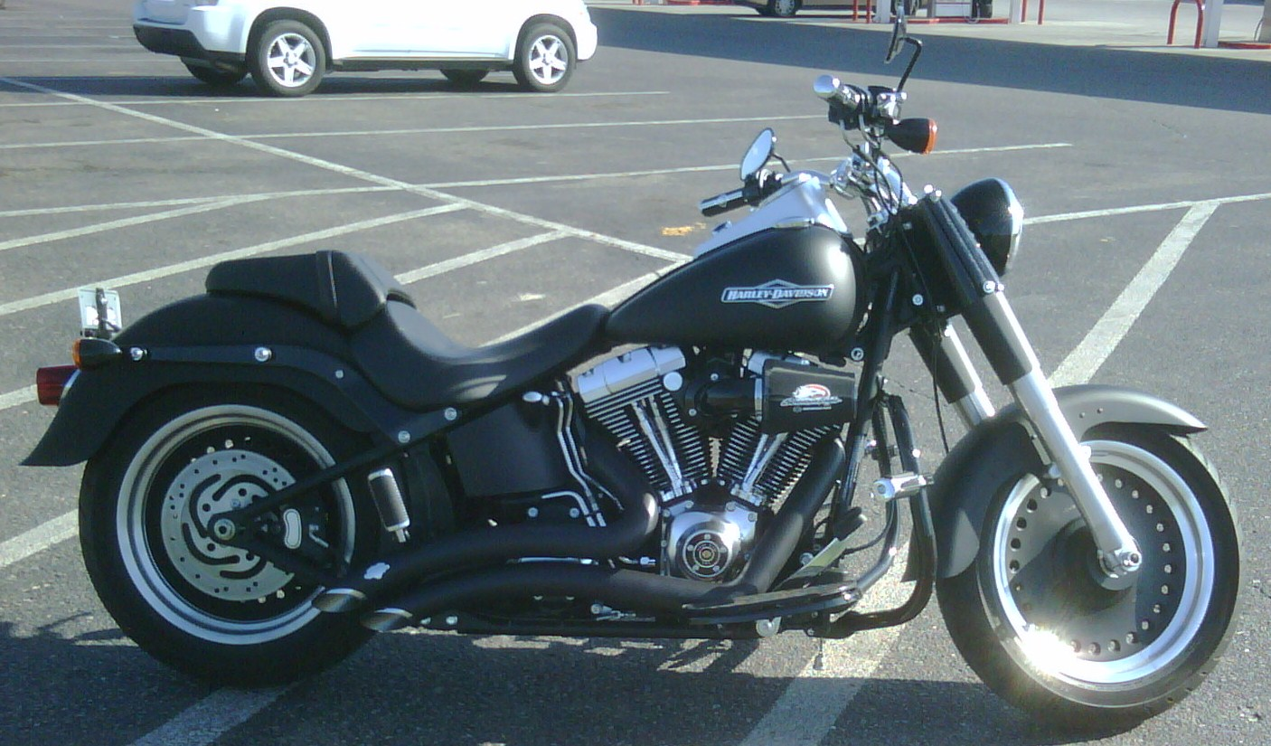 2011 FatBoy Lo